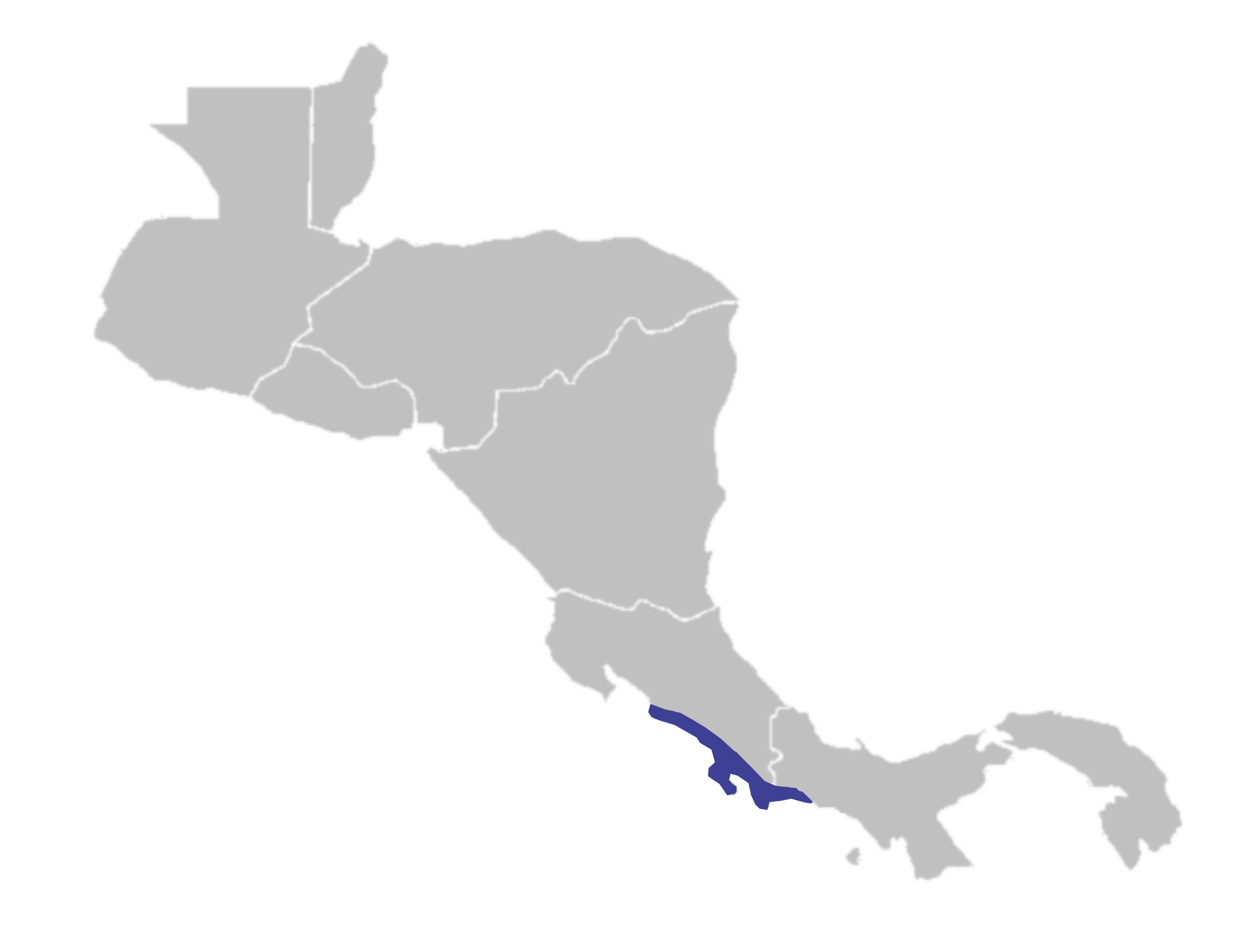 Distribution of Central Amrican squirrel monkey (Saimiri oerstedii)